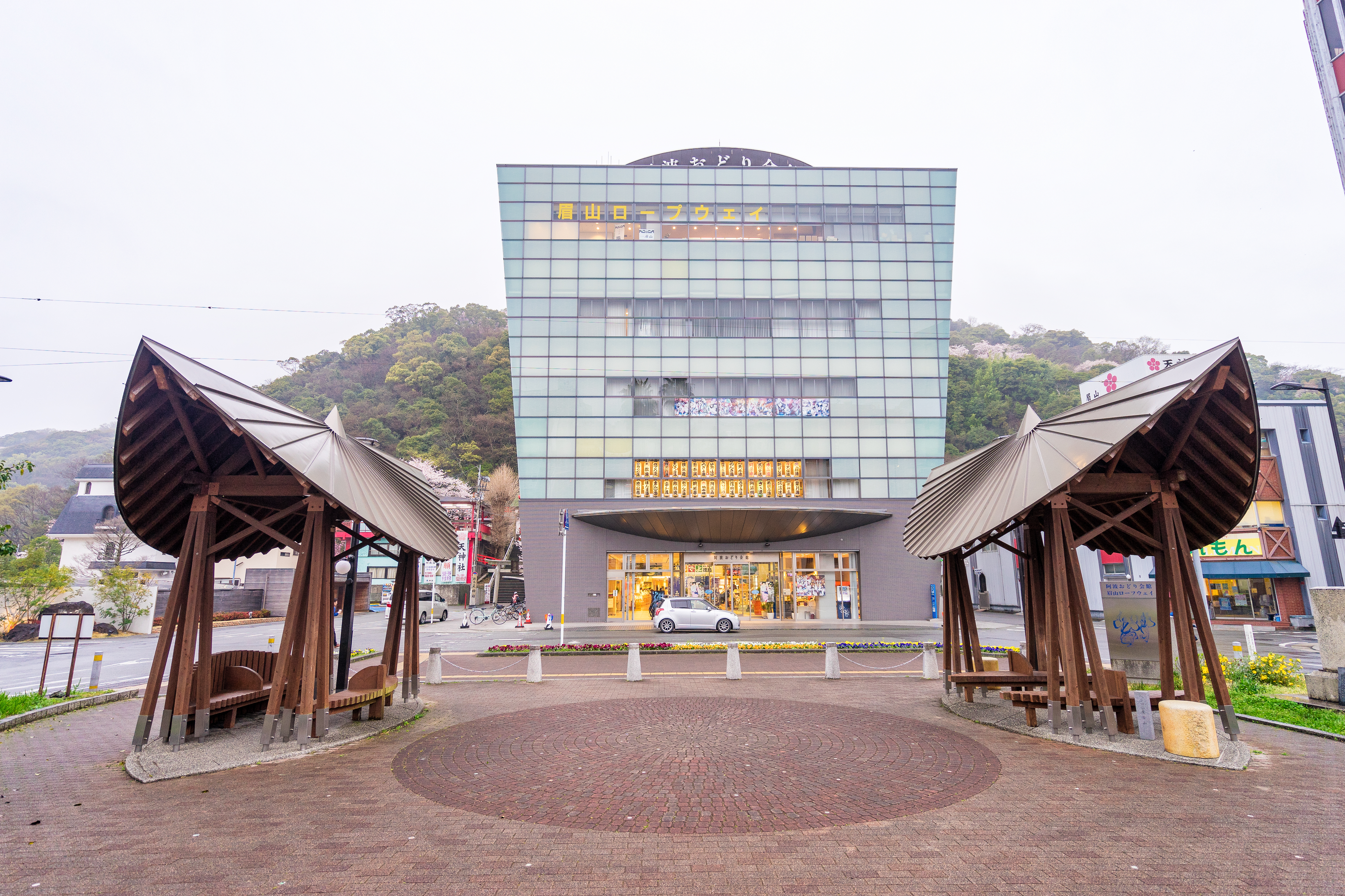 Awa Dance Memorial Hall in Tokushima city, Japan